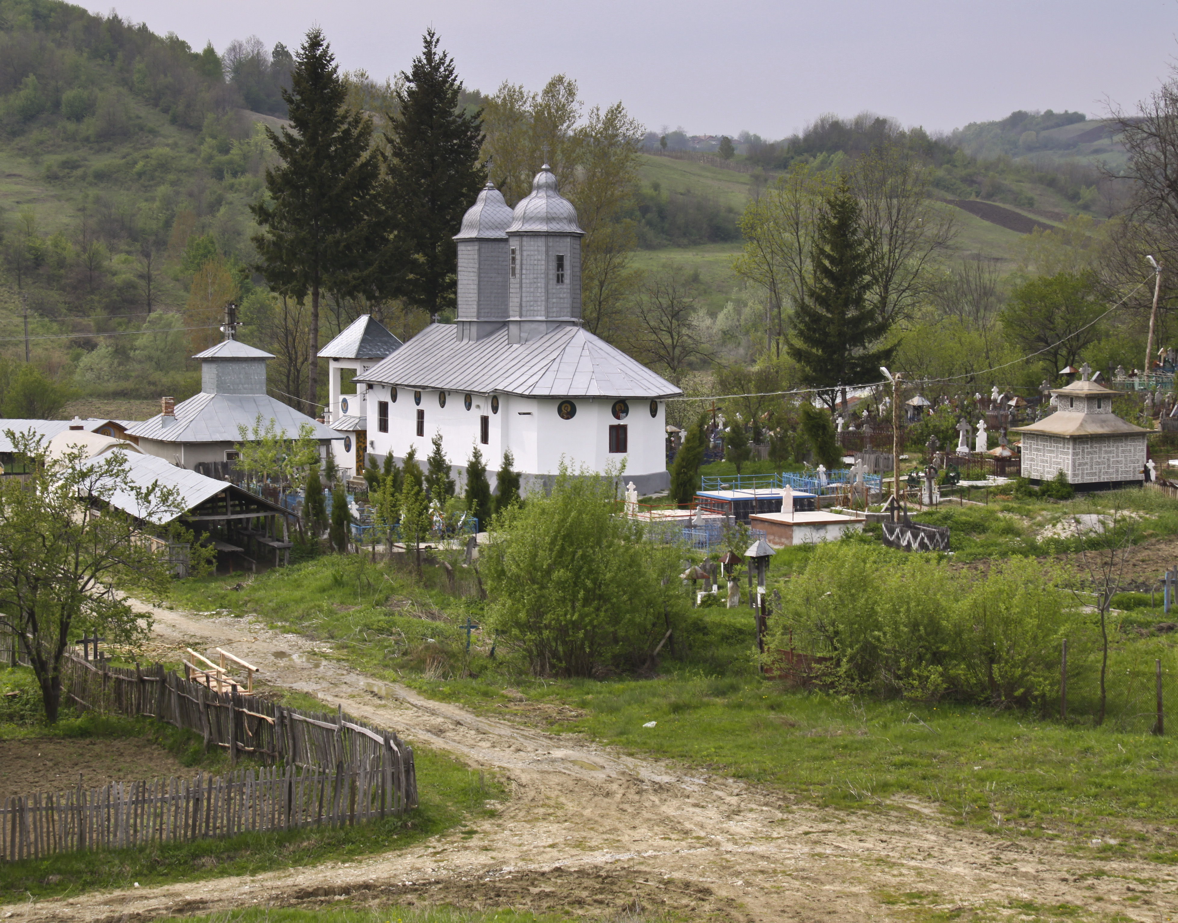 Dimuleşti, Vâlcea county, Romania: the wooden church.